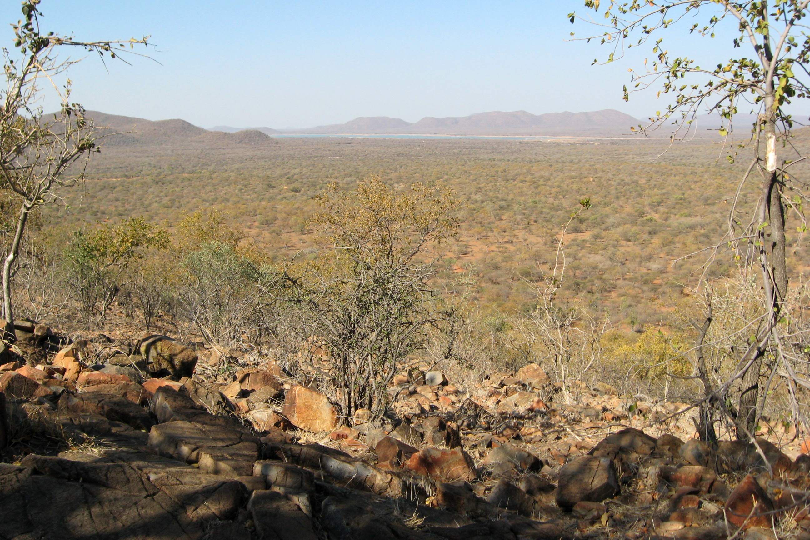 Overlooking Mokolodi Nature Reserve, just outside of Gabrone, Botswana